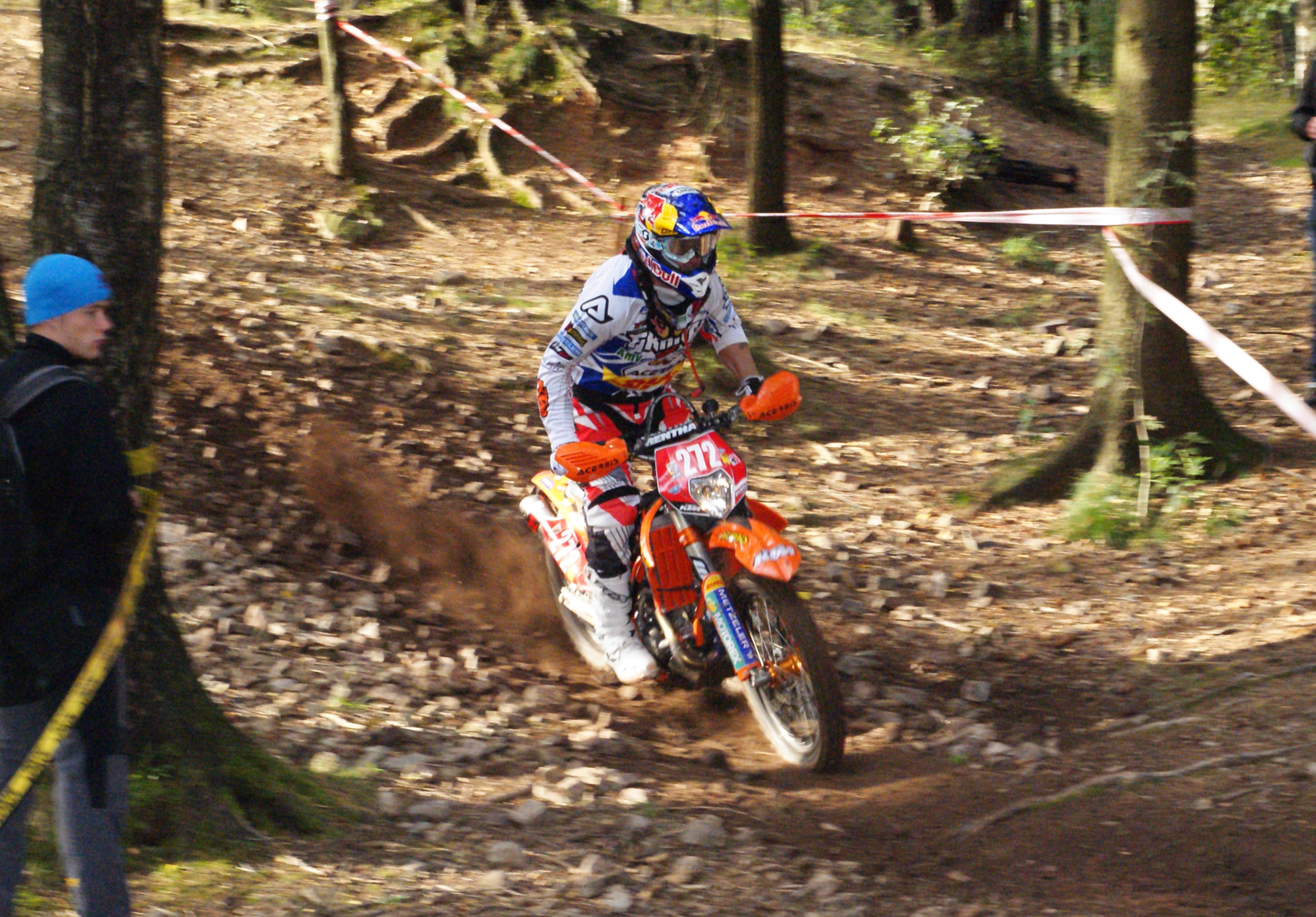 The making of this document was supported by the Community-Budget of Wikimedia Germany. 87. ISDE Germany Sonderpruefung Zwoenitz Johnny Aubert Trophy France